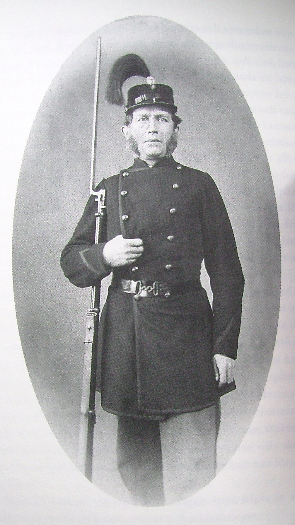 Picture of S.A. Hedlund, Swedish politician